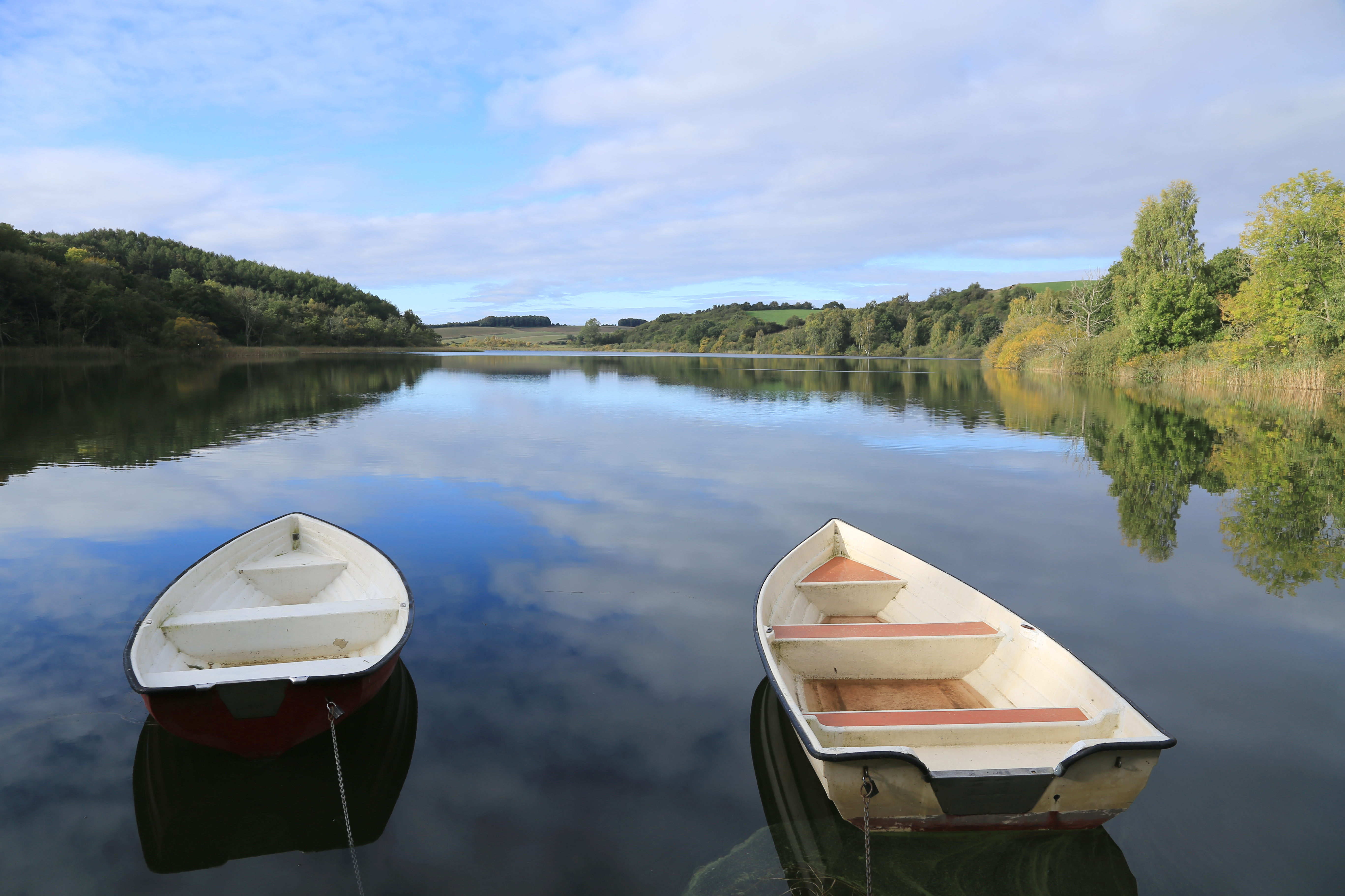 Maglesø seen towards west